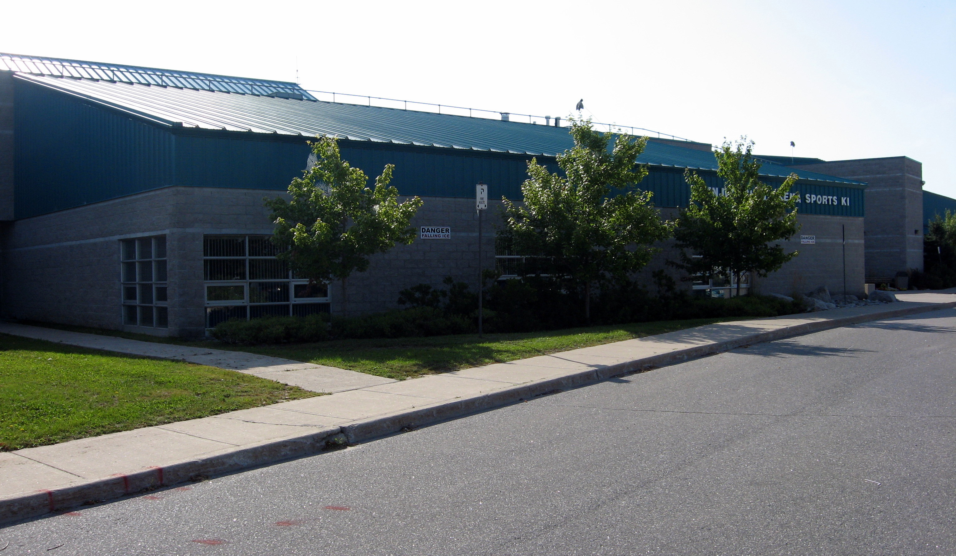 Mnjikaning Arena Sports Ki, an arena on the Chippewas of First Nation reserve near Orillia, Ontario, Canada